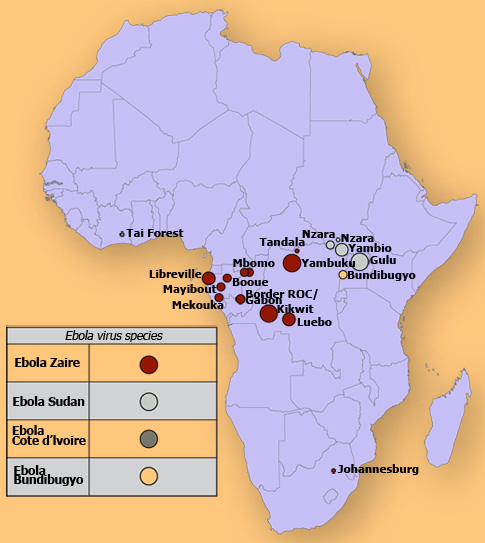 Ebola Hemorrhagic Fever fistribution map of outbreaks in Africa